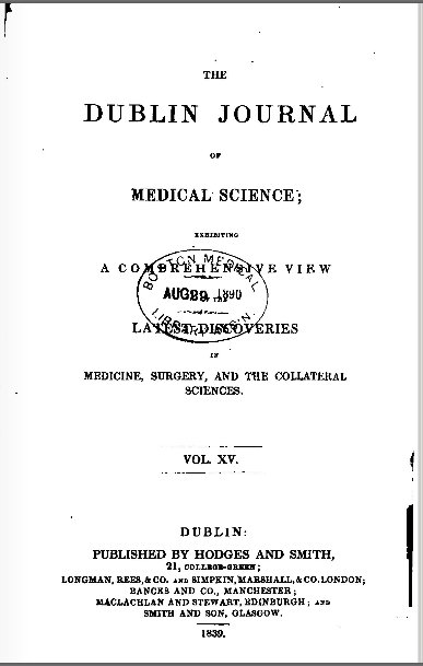 Publisher: Hodges and Smith Year: 1839 Possible copyright status: NOT_IN_COPYRIGHT Language: English Digitizing sponsor: Google Book from the collections of: Harvard University Collection: americana